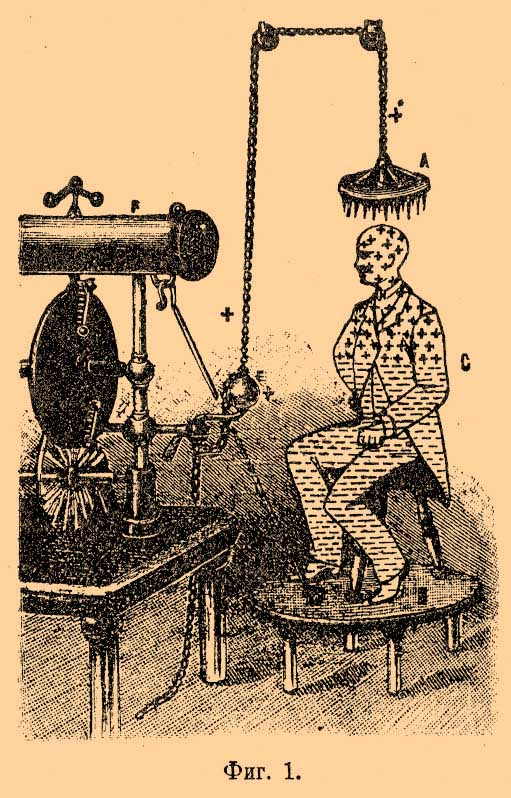 Illustration from Brockhaus and Efron Encyclopedic Dictionary (1890—1907)